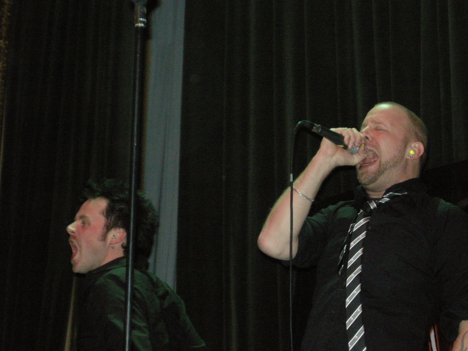 Sparzanza (Johannesson och Weileby) at Nalen, Stockholm, 2009